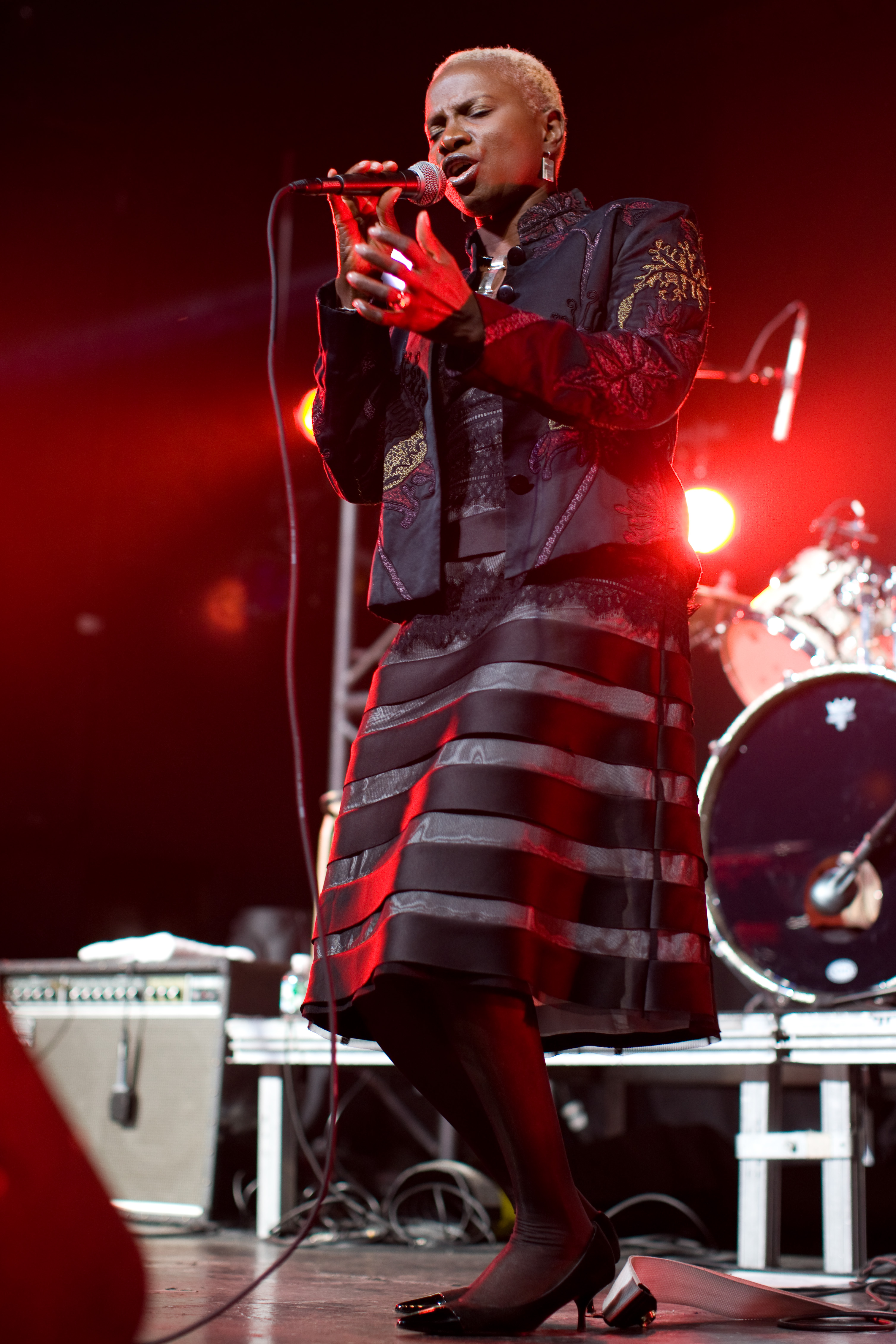 Angélique Kidjo